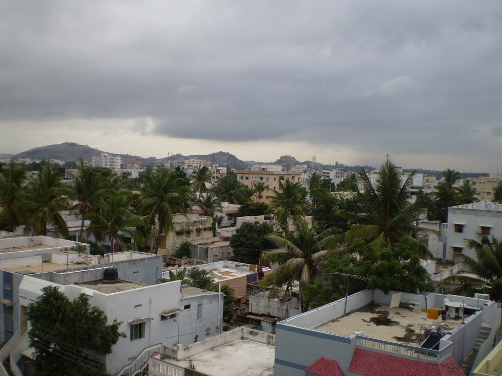 Skyline of Malkajgiri, Hyderabad, India